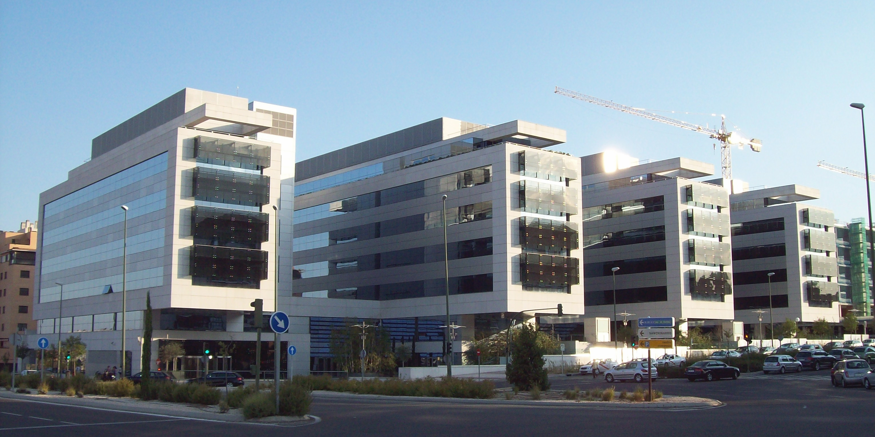 View of Dragados headquarters in Madrid (Spain).